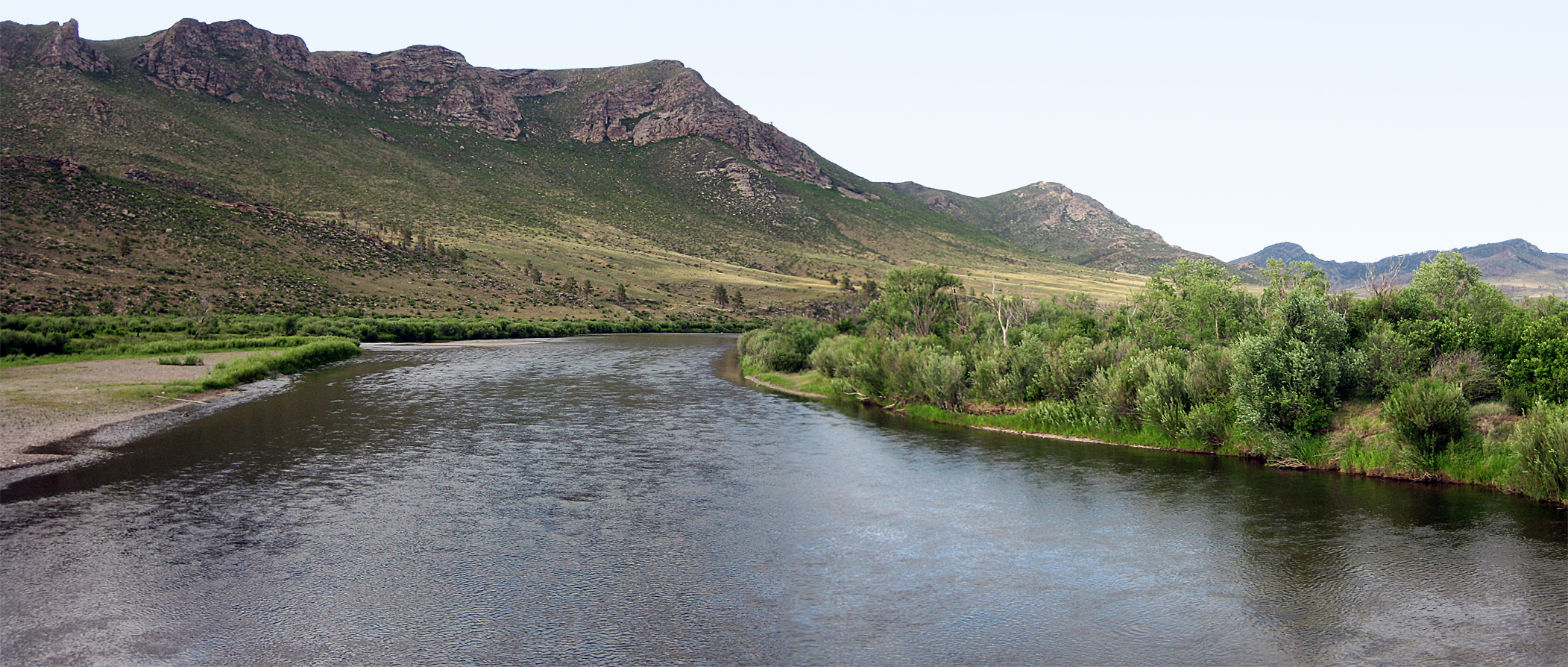 Stitched Panorama of Onon River, taken from Bridge near Dadal, Khentii